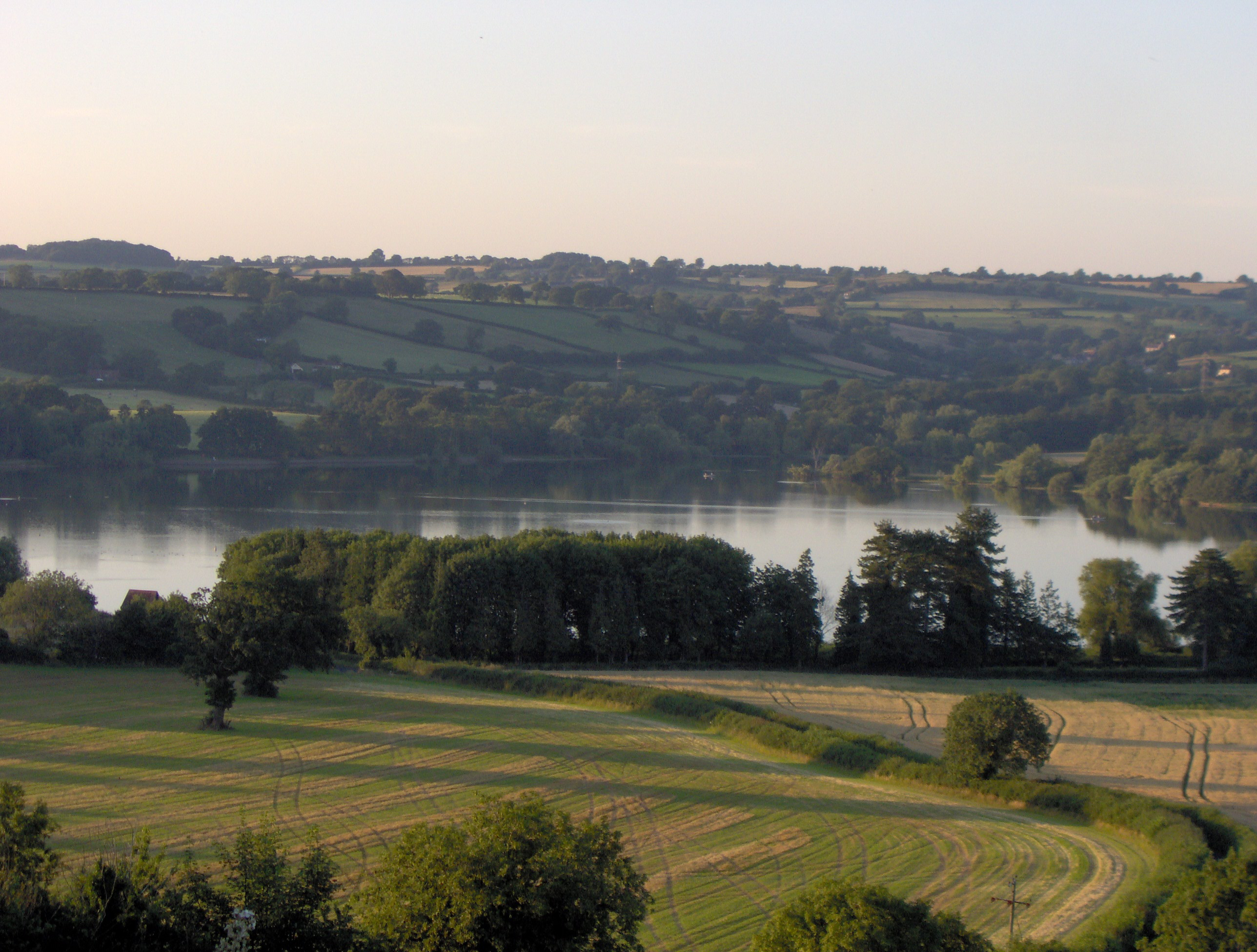 Blagdon Lake in the Chew Valley, England taken from the New Inn, Blagdon. Rod Ward 17.07.06